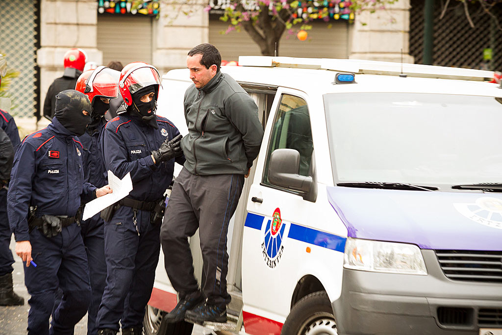 Police operation against Askegunea, 2013 april.